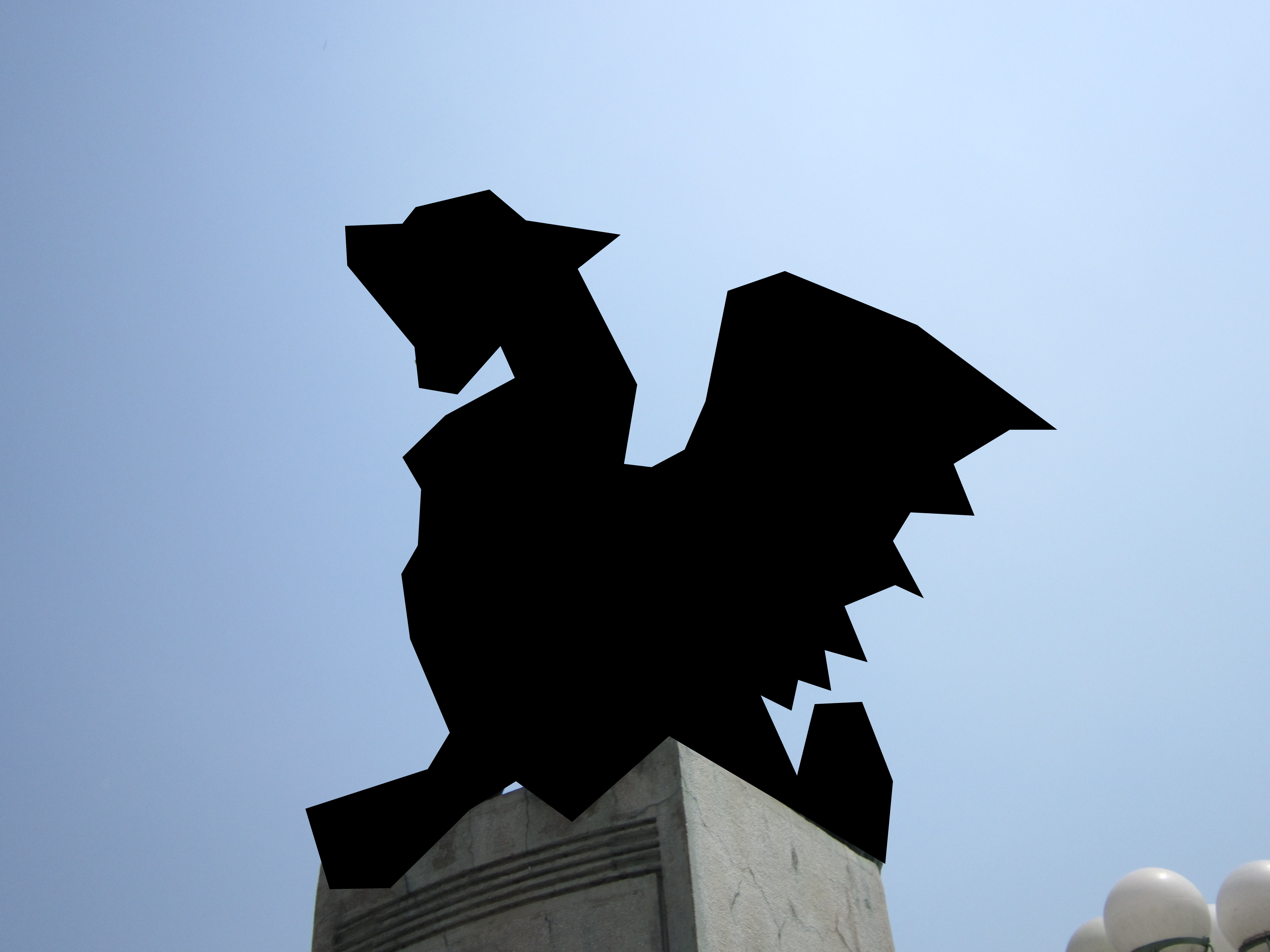 Dragon Bridge (dragon blacked out due to FOP).